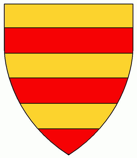 Escut d'armes dels comtes d'Empúries (ss. XII-XV) / Coat of arms of the counts of Empúries (12th-15th c.)